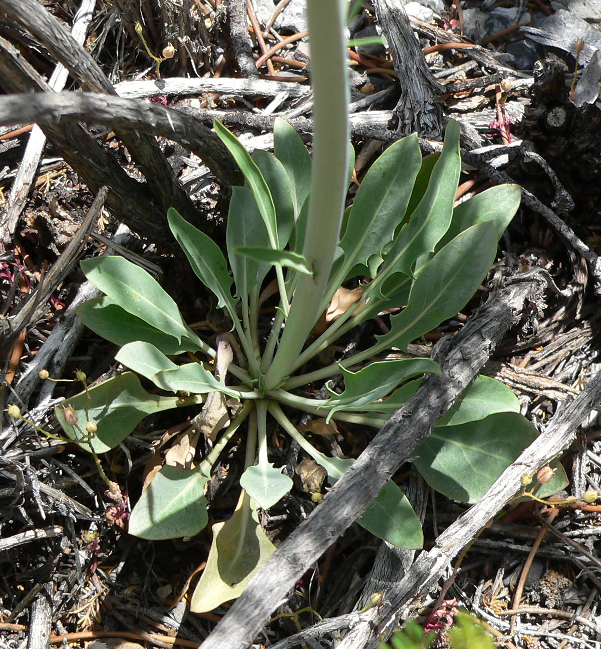 Caulanthus crassicaulis var. glaber near road 592(?) about 2 km northeast of Mount Stirling, Spring Mountains, southern Nevada (elev. about 1900 m)